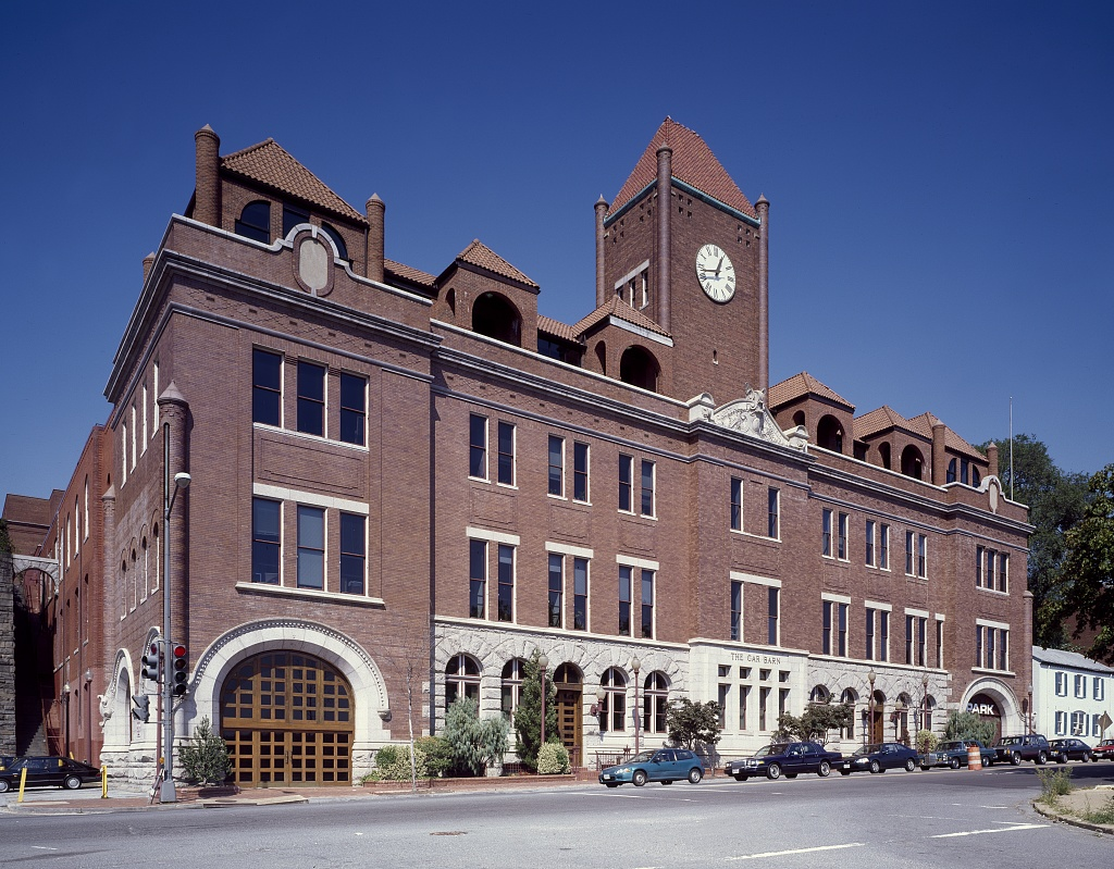 Old streetcar barn building in the Georgetown neighborhood. This building was once used as an "end of the line" station, a turn-around and maintenance facility for electric streetcars (trolleys). The Georgetown University Public Policy Institute and Masters of Business Administration program now occupies the building.